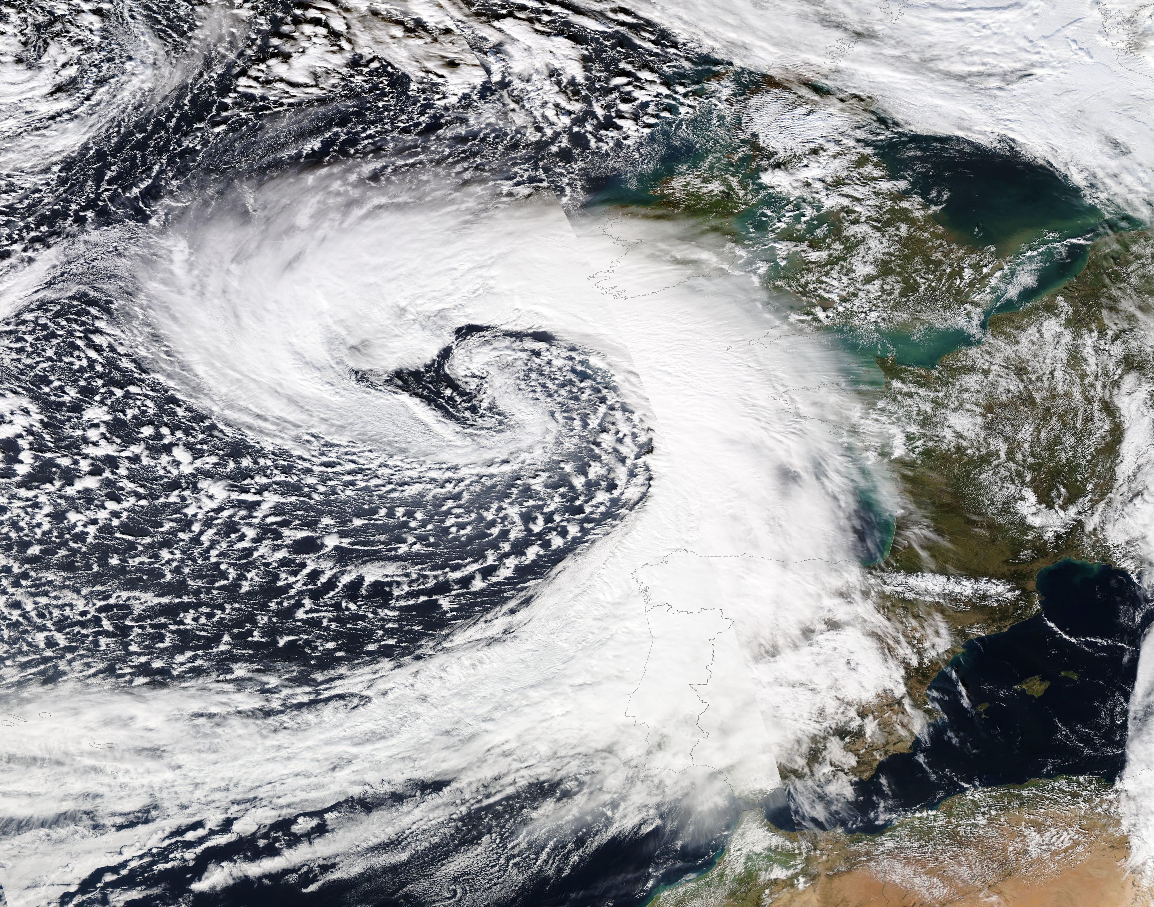 Extratropical cyclone Petra